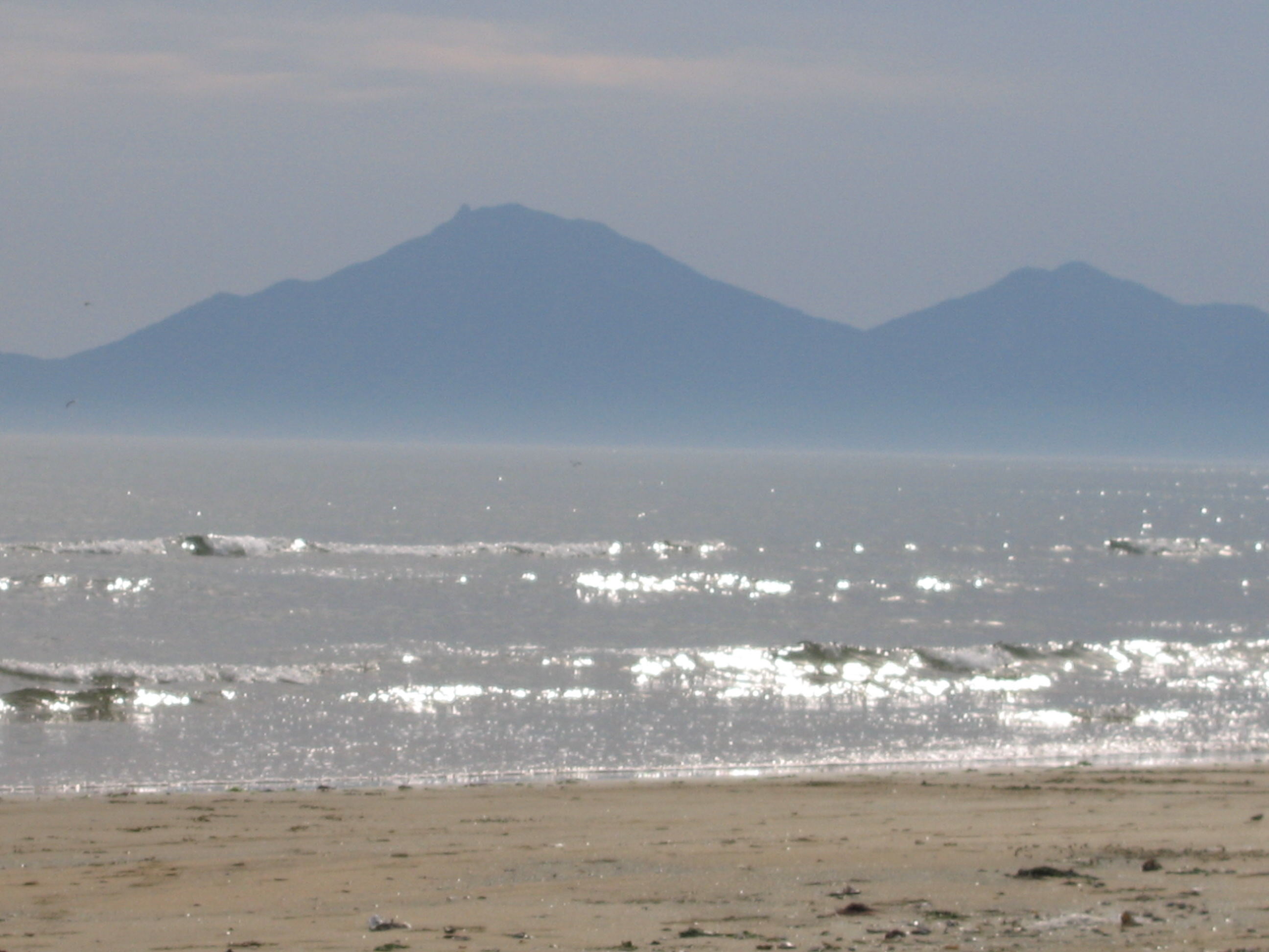 Dadaepo Beach, Busan, Korea